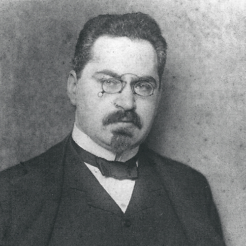 Portrait of Julius Morgenroth (1871-1924) , a German medical professional, early expert in chemotherapy